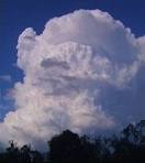 Single cell thunderstorm.